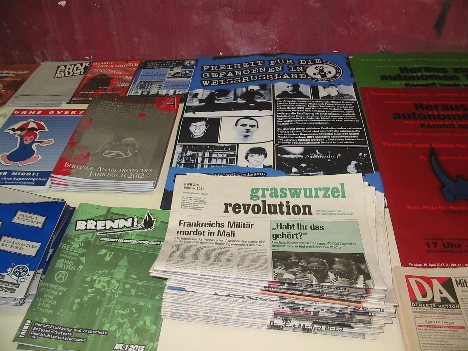 German anarchist publications